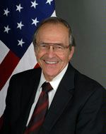 State Department portrait of Princeton Lyman, Special Envoy to South Sudan and Sudan as of 2011.